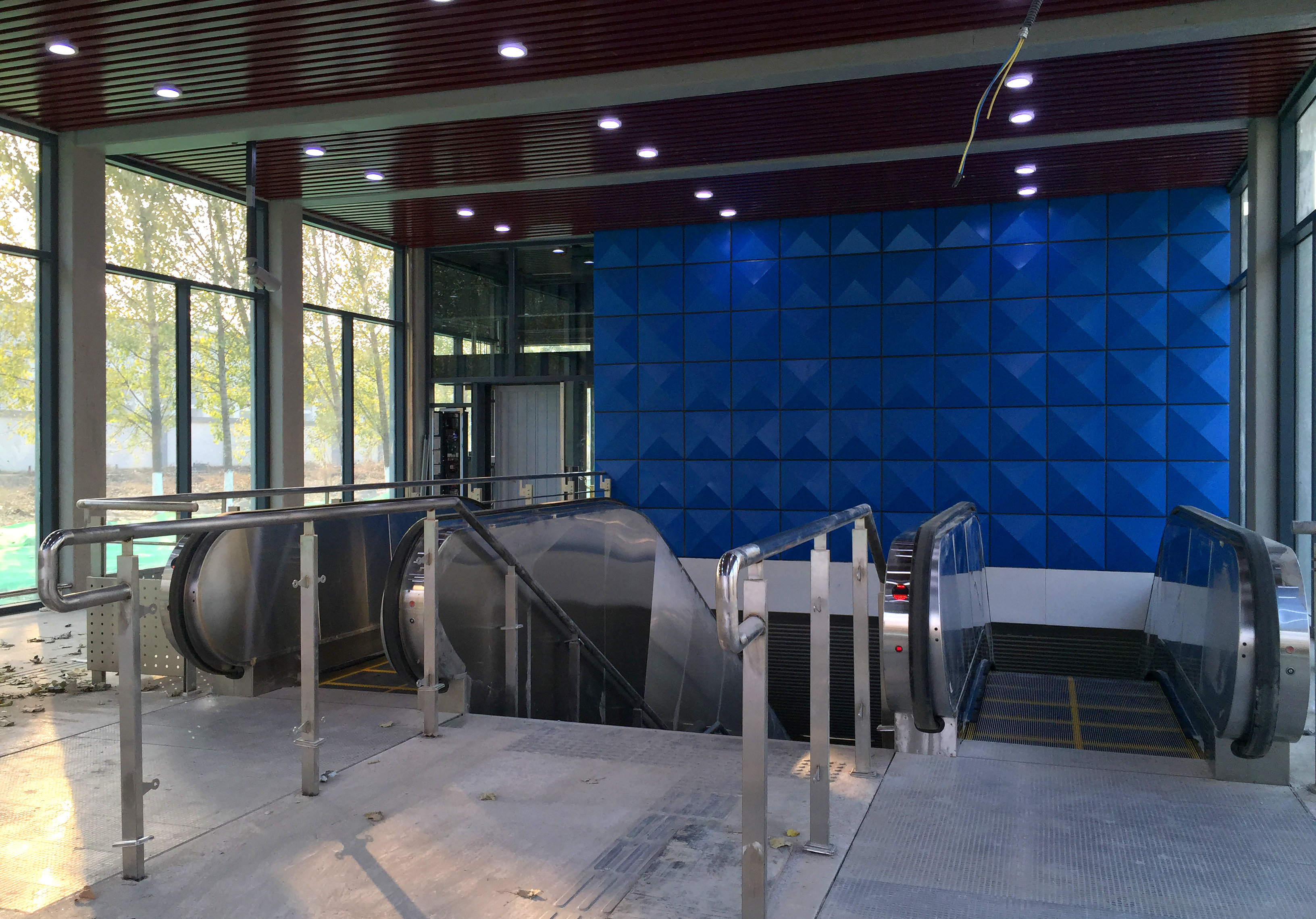 Double escalators and a lift.